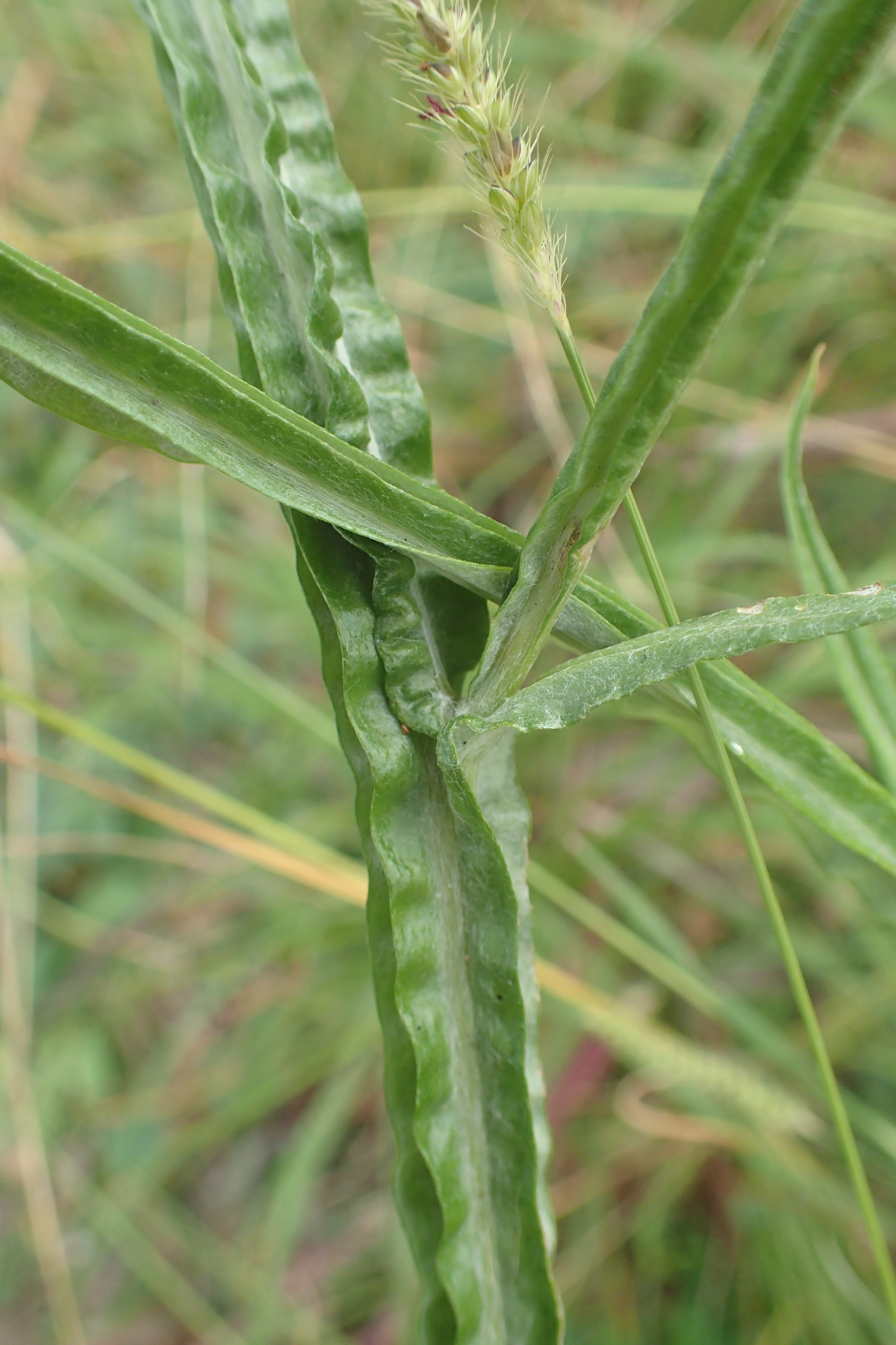 Close-up image of the stem of Ammobium alatum, near Tilbuster Ponds (creek), Armidale, New South Wales